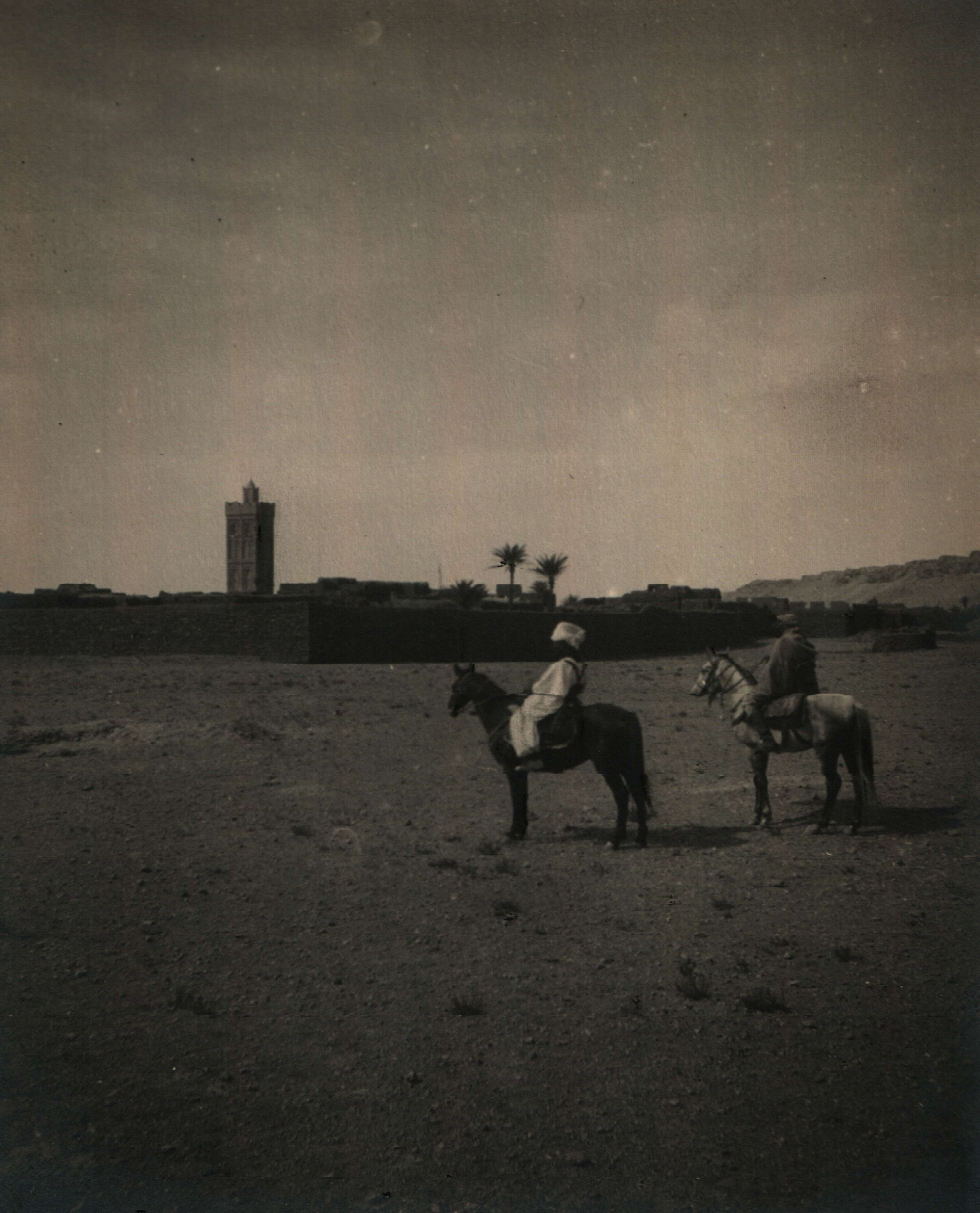 Views and photos of the Sahara desert and other regions in Africa. Kénadsa, Algeria.